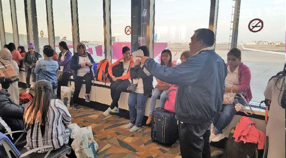 Philippine Ambassador to the Kingdom of Bahrain, H.E. Alfonso A. Ver, speaking with OFWs from Kuwait who are on their way back to the Philippines and are transiting through the Bahrain International Airport.